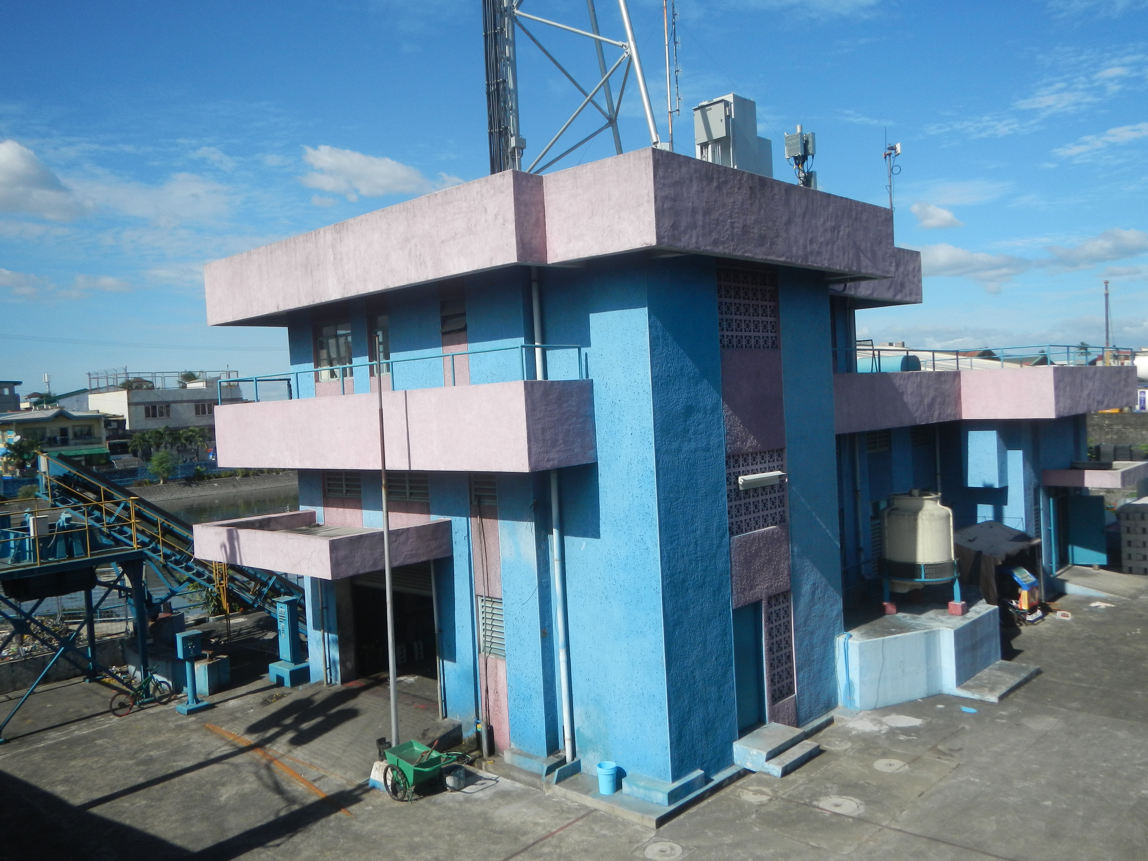 Pumping station Balut Pumping Station MMDA, Del Fierro Bridge Estero de Sunog Apog, Balut List of roads in Metro Manila Balut Pumping Station 14°37'47"N 120°58'7"E Balut 14°38'2"N 120°57'44"E Gagalangin, Tondo 14°37'34"N 120°58'16"E Del Fierro Street 14°37'36"N 120°58'14"E in the List of barangays of Metro Manila, Legislative districts of Manila a) Barangays 94, 95, 96, 97, Zone 8, 133, Zone 11, District II, Tondo, Manila, to b) Barangays 161, Zone 14, 173, 174 and 179, Zone 14 District II, Gagalangin, Tondo, Manila, c) Barangays 172, Zone 15, District II, Gagalangin, Tondo, Manila d) Barangays 126 & 127, Zone 10, Balut, Tondo, Manila d) Barangays 129, 130, 131, Zone 11, 139, 140, Zone 12, District I, Balut, Tondo, Manila e) Barangay 128, Zone 10, Smokey Mountain, Tondo, Manila Tondo, Manila, City of Manila, surrounded by List of rivers and estuaries in Metro Manila (Note: Judge Florentino Floro, the owner, to repeat, Donor Florentino Floro of all these photos hereby donate gratuitously, freely and unconditionally all these photos to and for Wikimedia Commons, exclusively, for public use of the public domain, and again without any condition whatsoever).